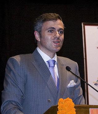 Omar Abdullah, the chief minister of Jammu & Kashmir was among the VIPs who shared the dais at the inaugural function of the 3rd Goa Arts & Literary Festival 2012, held at the Kala Academy auditorium in Panjim, Goa, India, on December 13, 2012.